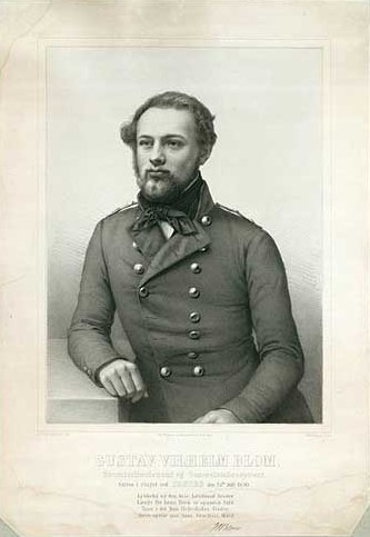 Gustav Vilhelm Blom (1826-1850), Danish army officer